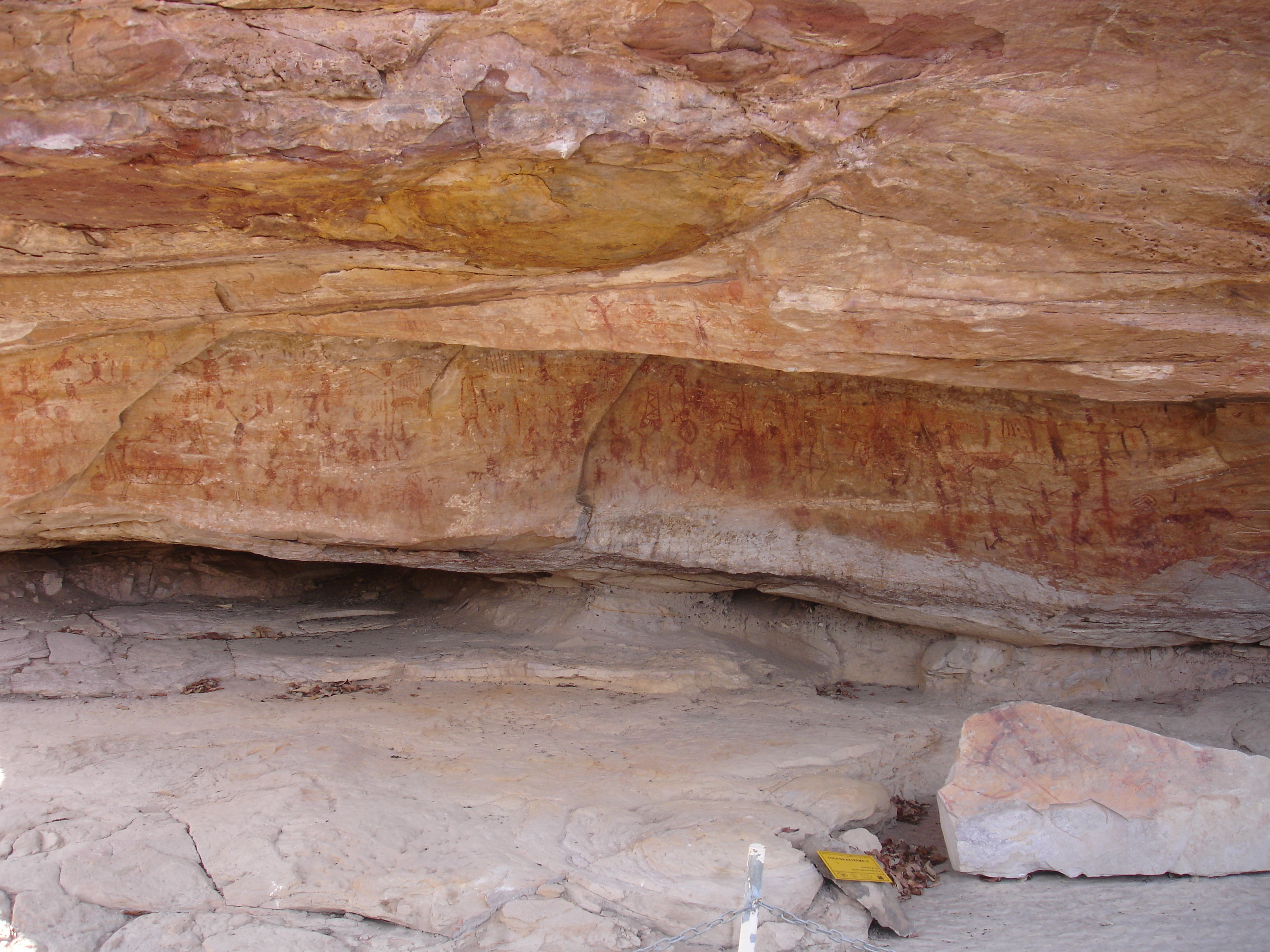 A whole painted wall of the Serra da Capivara Park. It gives an idea of the number of paintings that can be found in one single site.